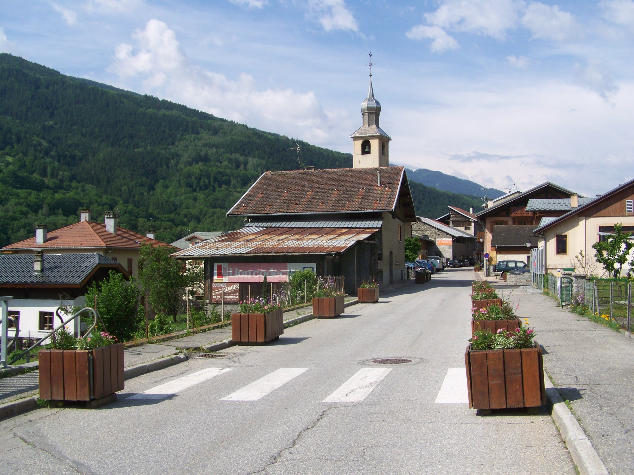 Center of French commune of Bellentre in Savoie.